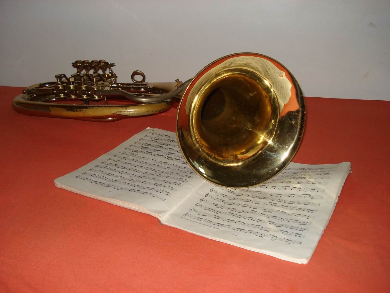 Wagner tuba in B.